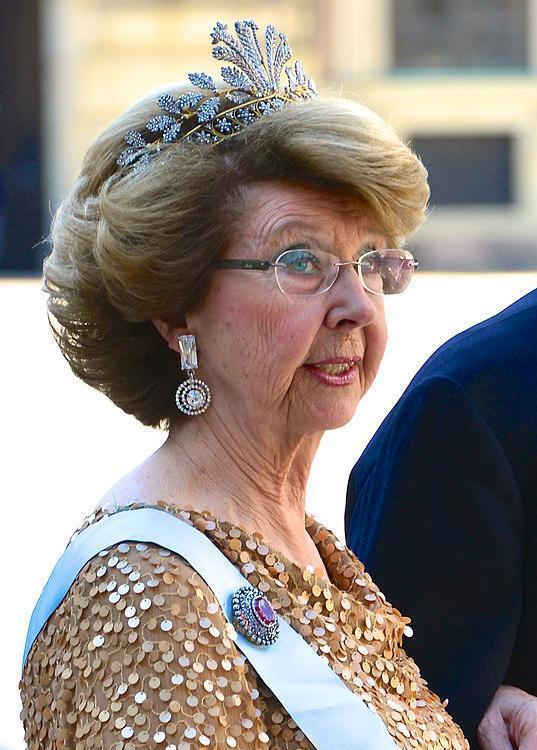 Princess Désirée & Niclas Silfverschiöld on the way to the castle church at the Royal Palace in Stockholm before the wedding between Princess Madeleine and Christopher O'Neill 8 June 2013.